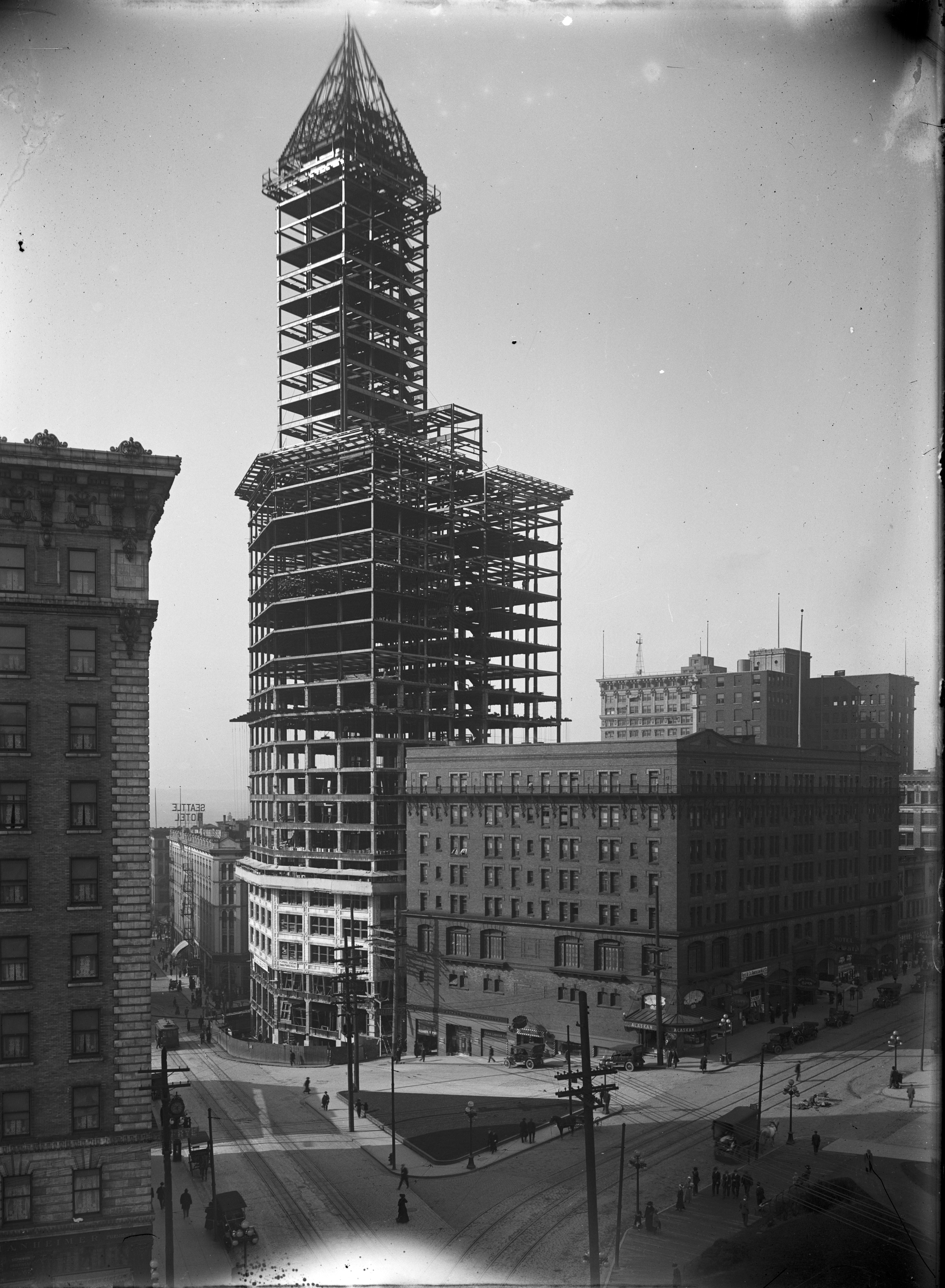 Seattle's Smith Tower under construction, 1913. Other prominent buildings in the picture are the Frye Hotel (now Frye Apartments) at left, the triangular Seattle Hotel (demolished in the 1960s) just left of the Smith Tower and the Morrison Hotel just right of the Smith Tower.